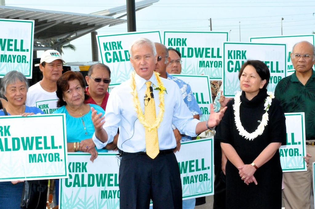 Photo from Kirk Caldwell's announcement for his candidacy for Mayor of Honolulu at the Kalihi Transit Center on January 12. 2012.